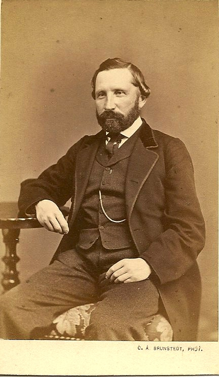 Josef Oscar Almqvist